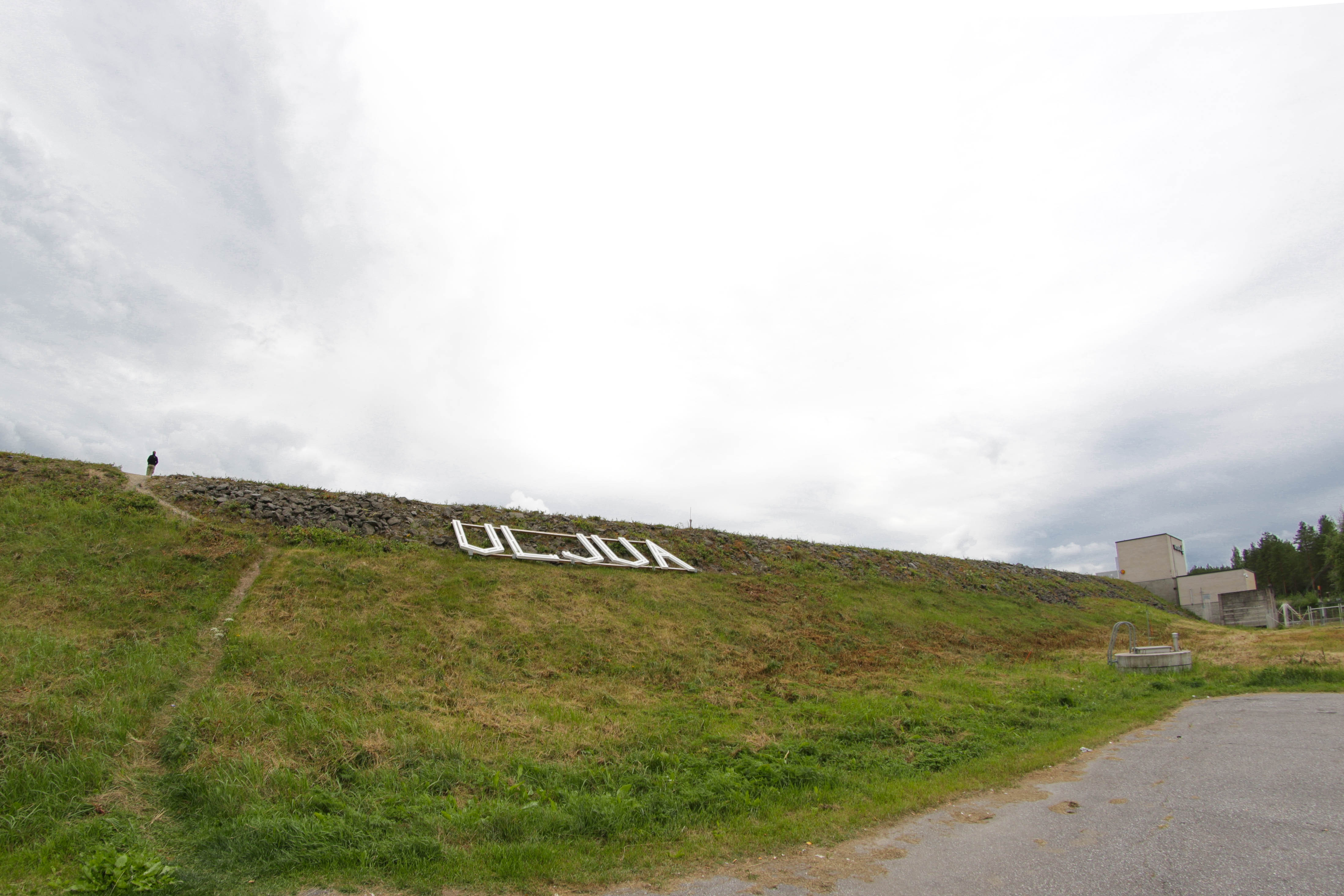 Uljua reservoir, located in Siikalatva municipality. Dam with hydroelectric power plant.